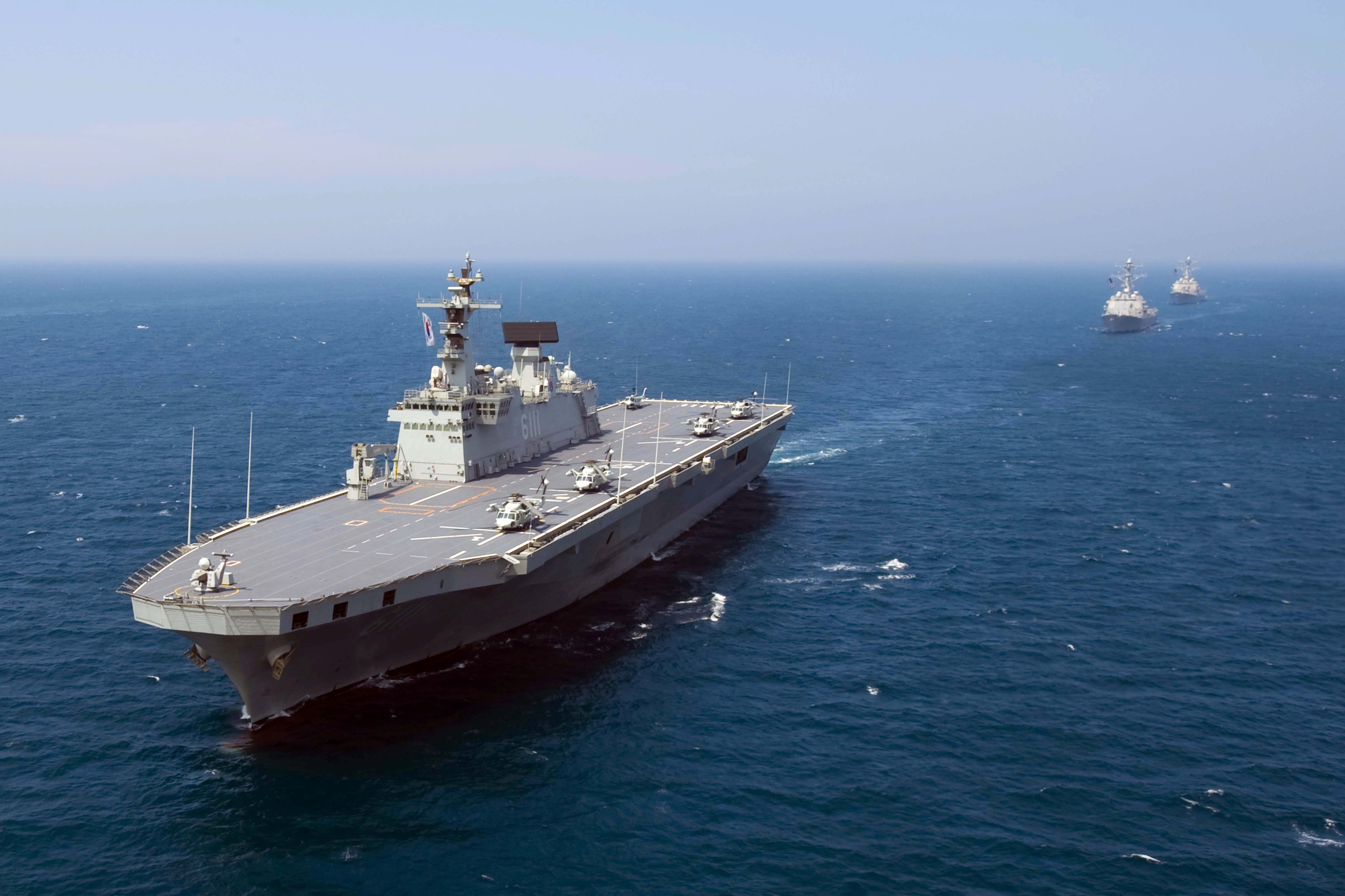 SEA OF East (July 27, 2010) The Republic of Korea Navy amphibious landing ship ROKS Dokdo (LPH 6111) is underway in the Sea of Japan with the guided-missile destroyers USS Lassen (DDG 82) and USS Chung-Hoon (DDG 93). The Republic of Korea and the United States are conducting the combined alliance maritime and air readiness exercise "Invincible Spirit" in the seas east of the Korean peninsula from July 25-28, 2010. This is the first in a series of joint military exercises that will occur over the coming months. (U.S. Navy photo by Mass Communication Specialist 3rd Class Adam K. Thomas/Released)